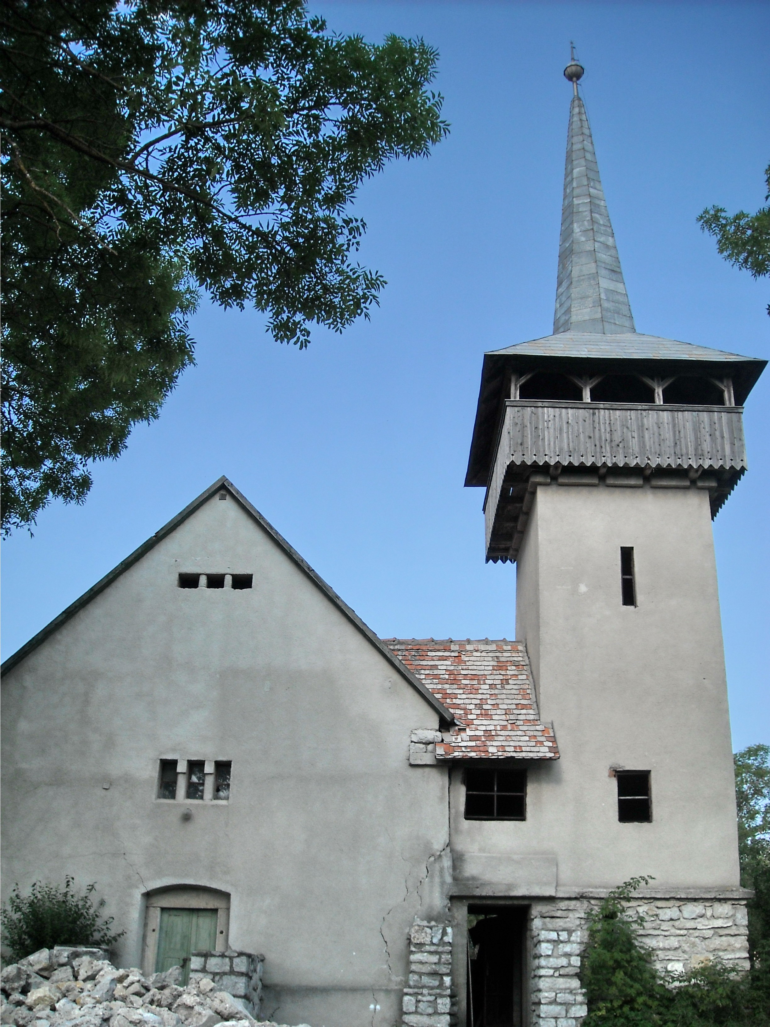 Calvinist church in Tureni/Tordatúr, judeţul Cluj, România